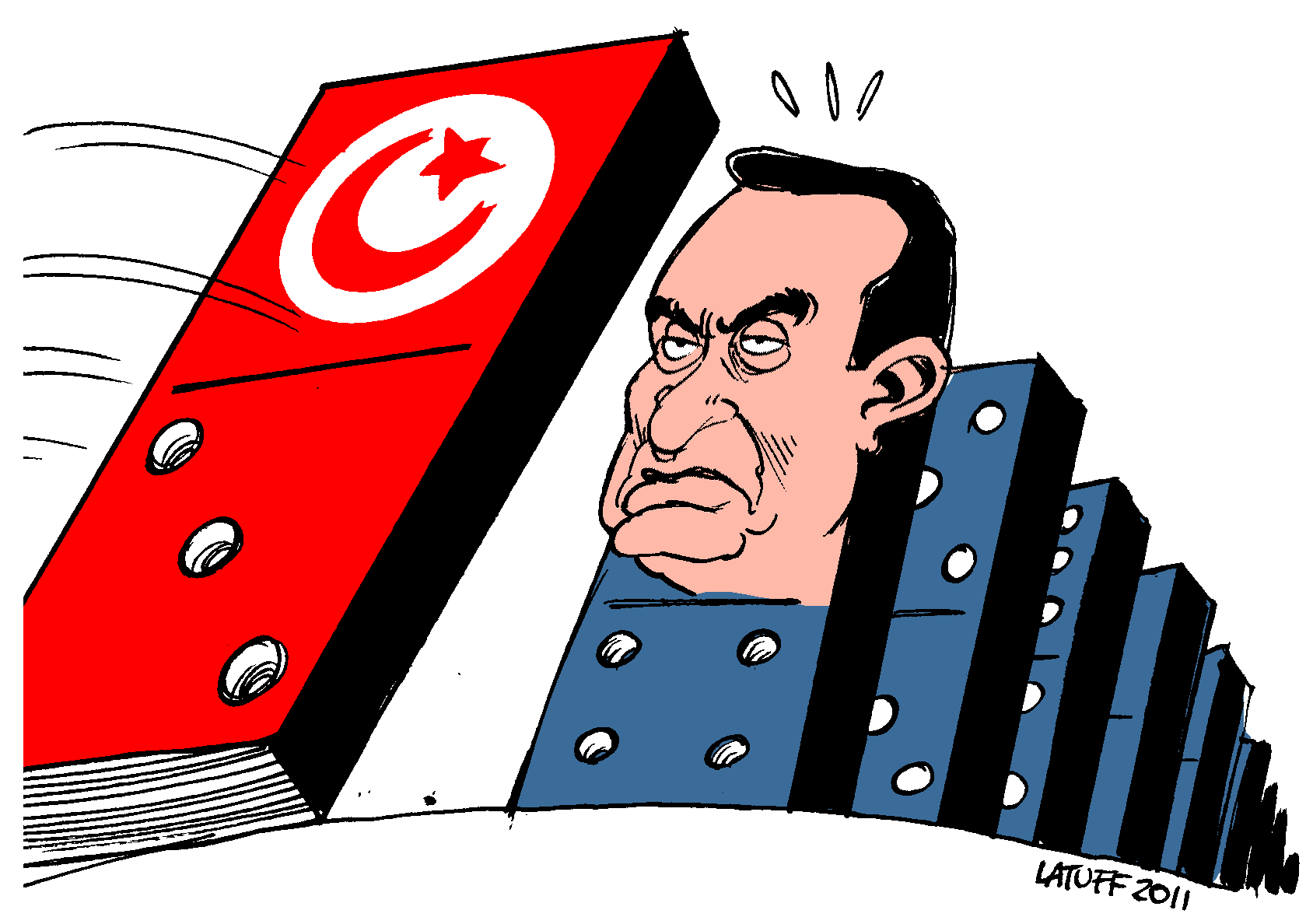 Hosni Mubarak facing the Tunisian domino effect